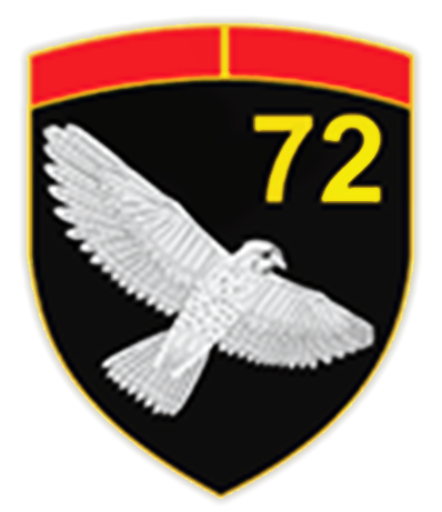 Patch of 72nd. Brigade for Special Operation